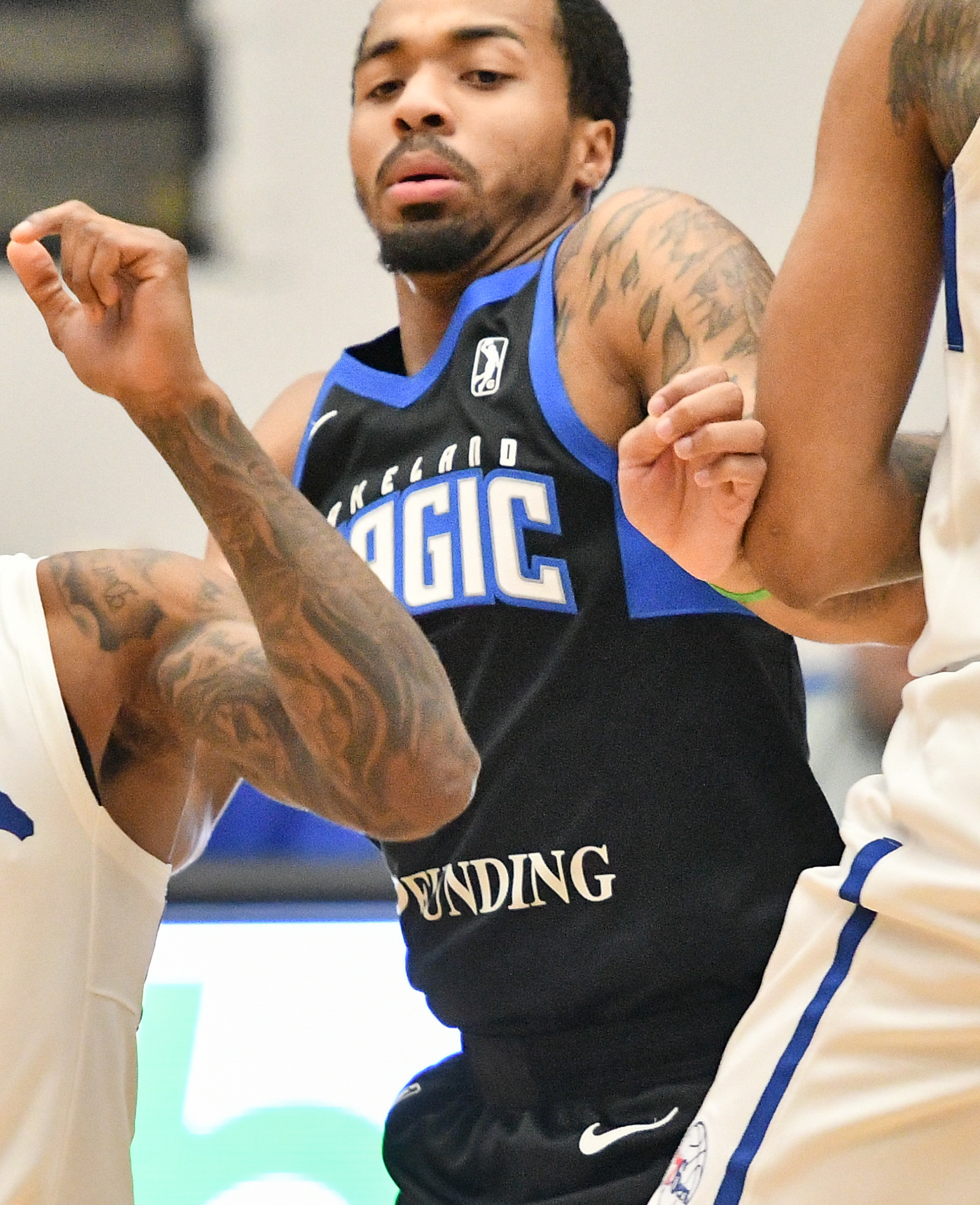 Xavier Munford, Jon Davis. Lakeland Magic vs Delaware Blue Coats. RP Funding Center. Lakeland, Fla. Dec. 1, 2019. (Photo by Tom Hagerty.)